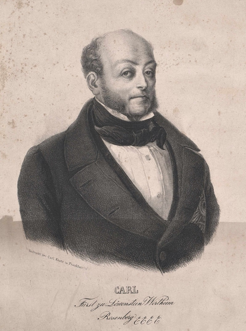 Karl Thomas zu Löwenstein-Wertheim-Rosenberg (1783-1849)